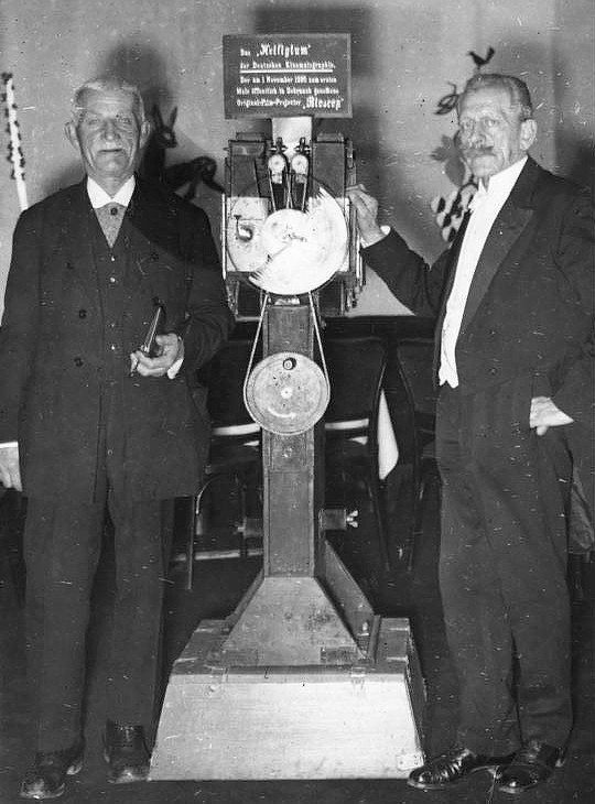 Max Skladanowsky, (right with his first projector, the "Bioskop") Film technician, born 1863-04-30 in Berlin, died 1939-11-30 in Berlin, constructed in 1892 a film camera and projector with which he gave the first performance on 1.11.1895 at the Berliner Wintergarten. His brother Eugen (left) was the first actor in his short films.